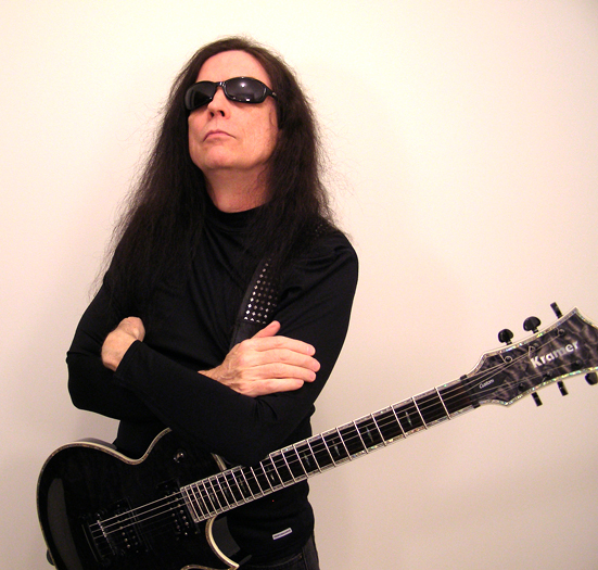 Solo photo.